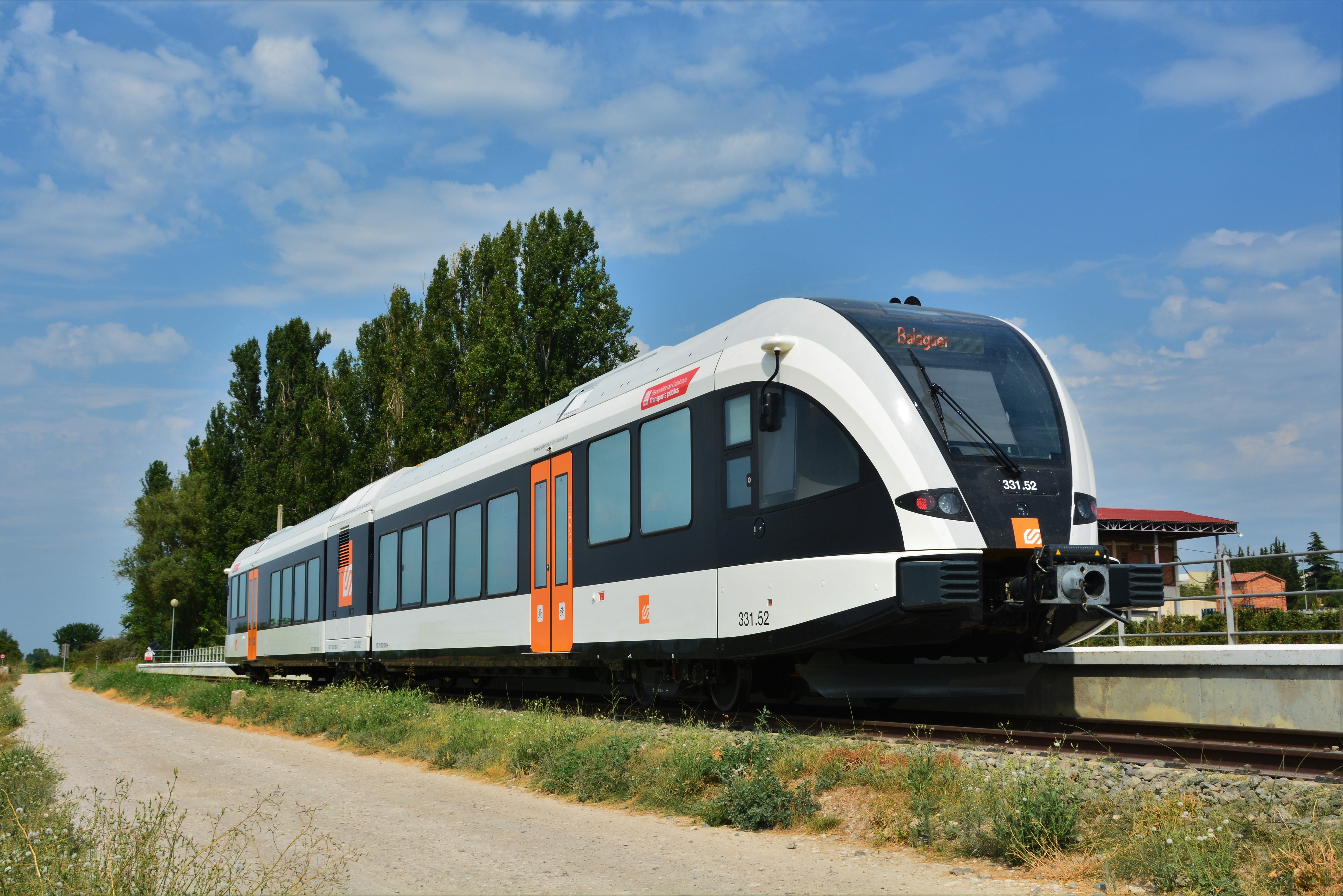 DMU 331/02 of Ferrocarrils de la Generalitat de Catalunya at the Alcoletge halt, during the training of the driving staff prior to commercial commissioning.